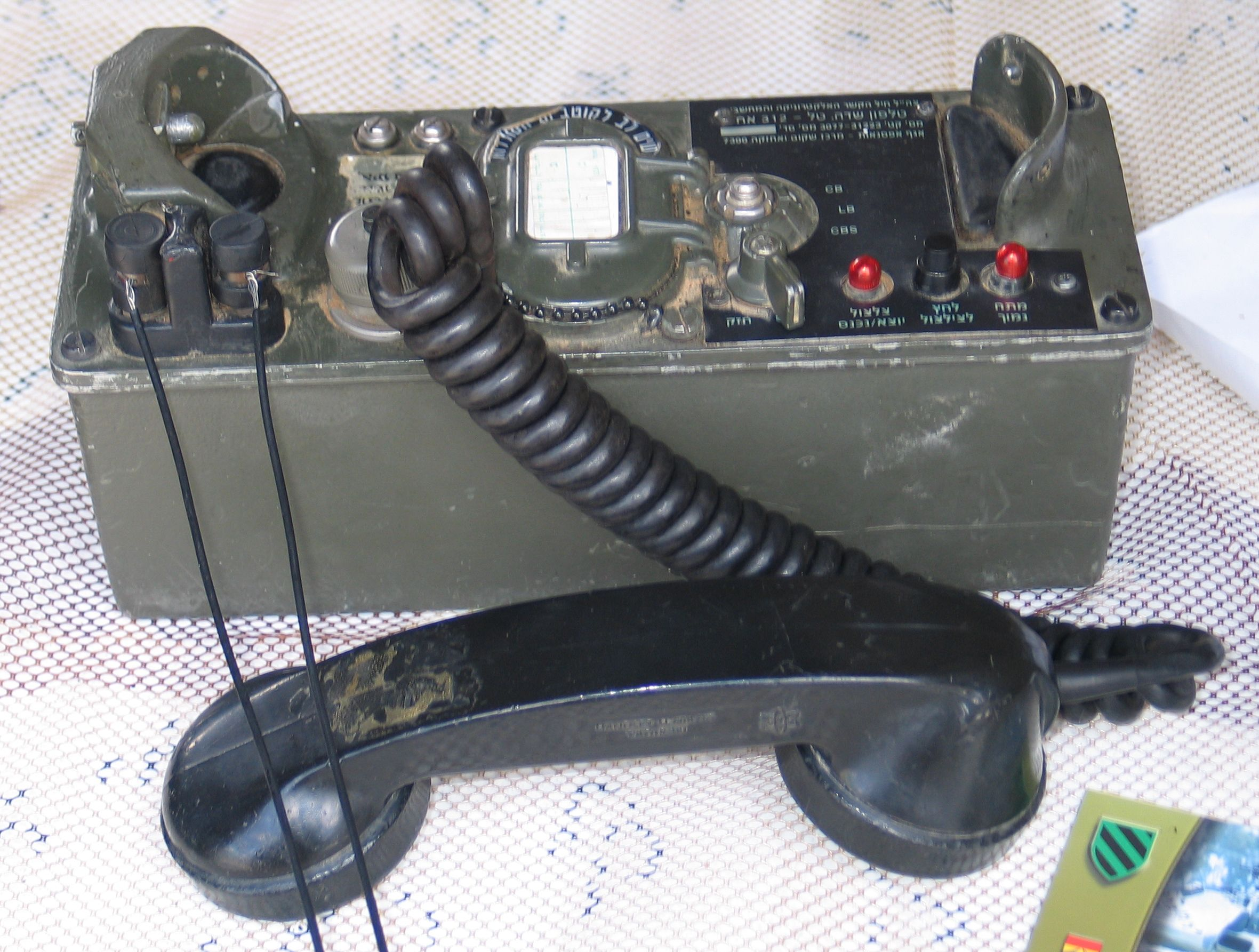 Field phone TA-312 (IDF designation Tel 312 Alef-Chet). Independence Day exhibition at Yad la-Shiryon Museum, Latrun, Israel.